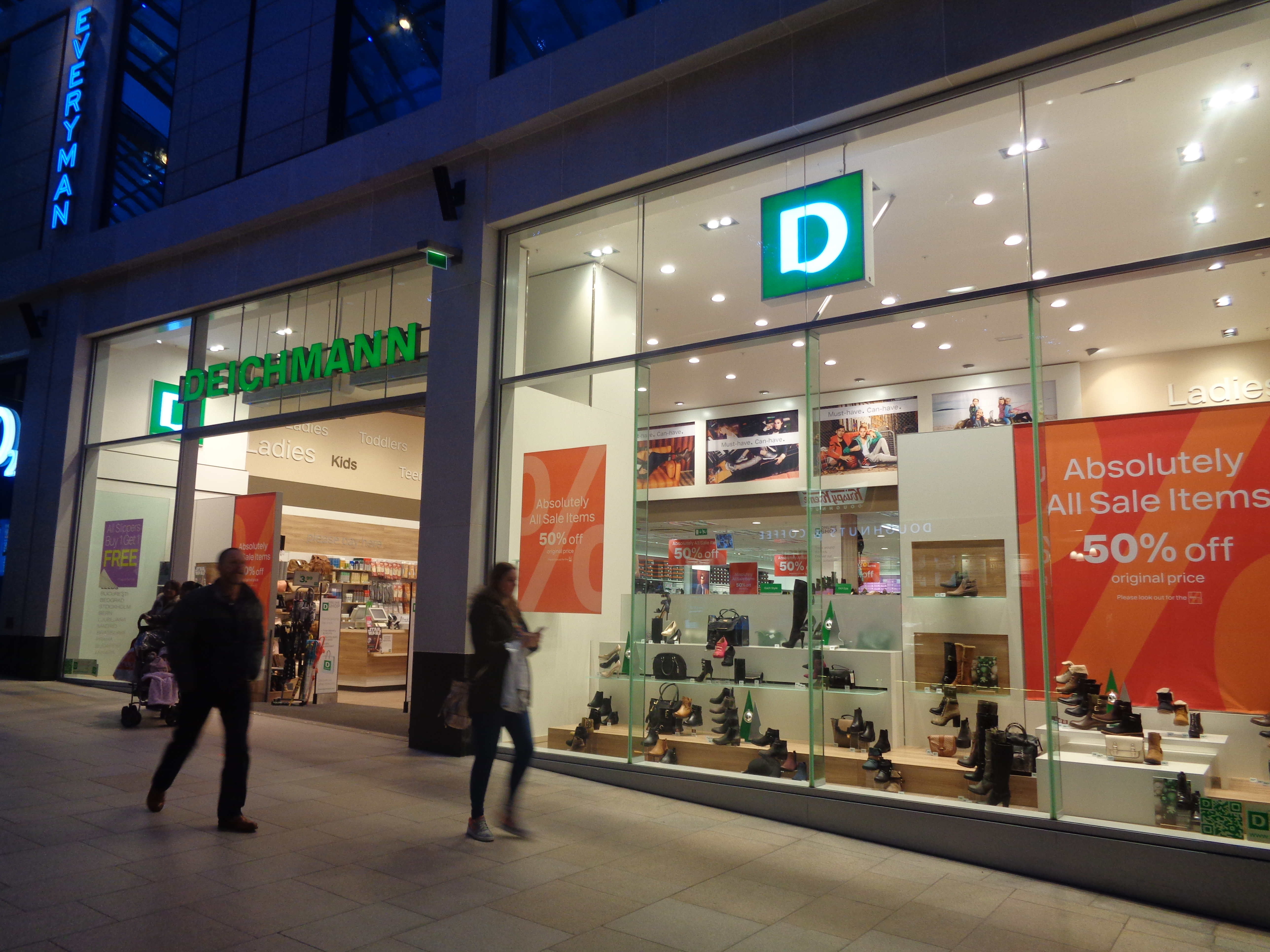 Deichmann, Trinity, Leeds, West Yorkshire. Taken on the evening of Tuesday the 21st of December 2015.